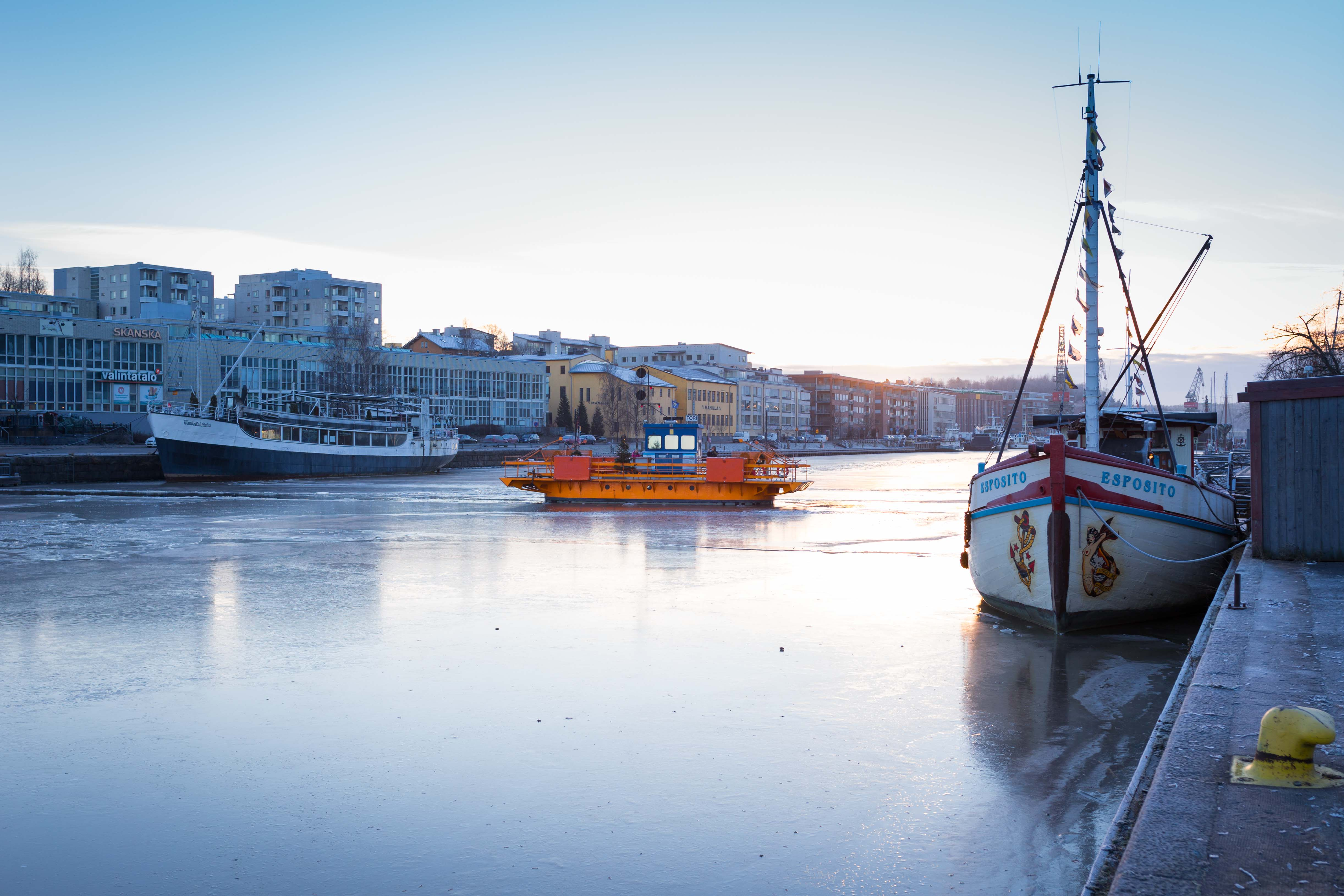 Föri in December 2016